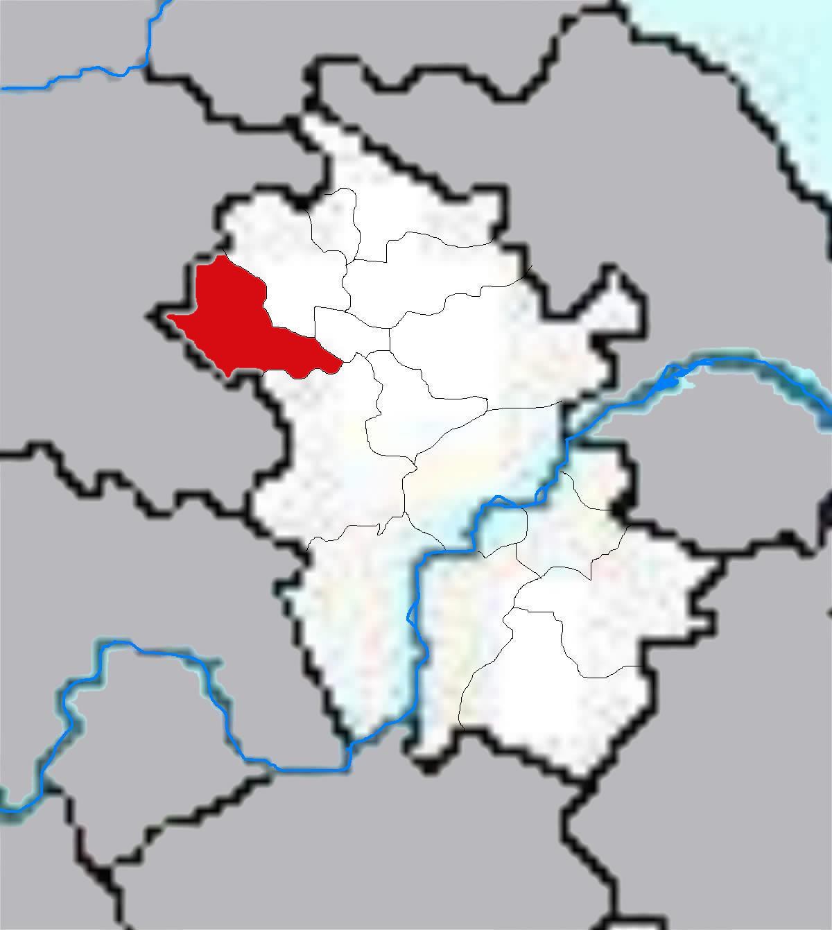 Maps of Anhui Province of China